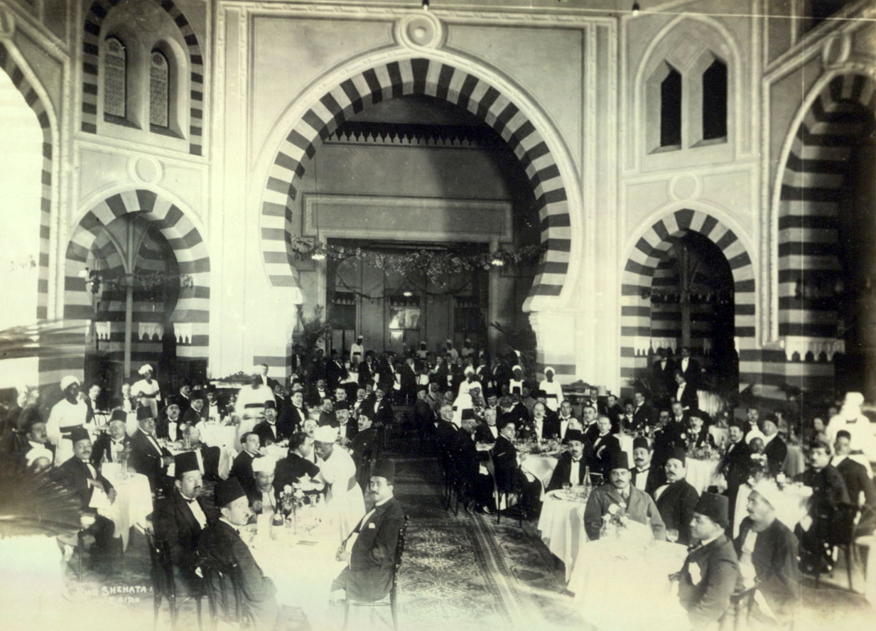 Opening ceremony of the Luxor-Aswan rail line 1926